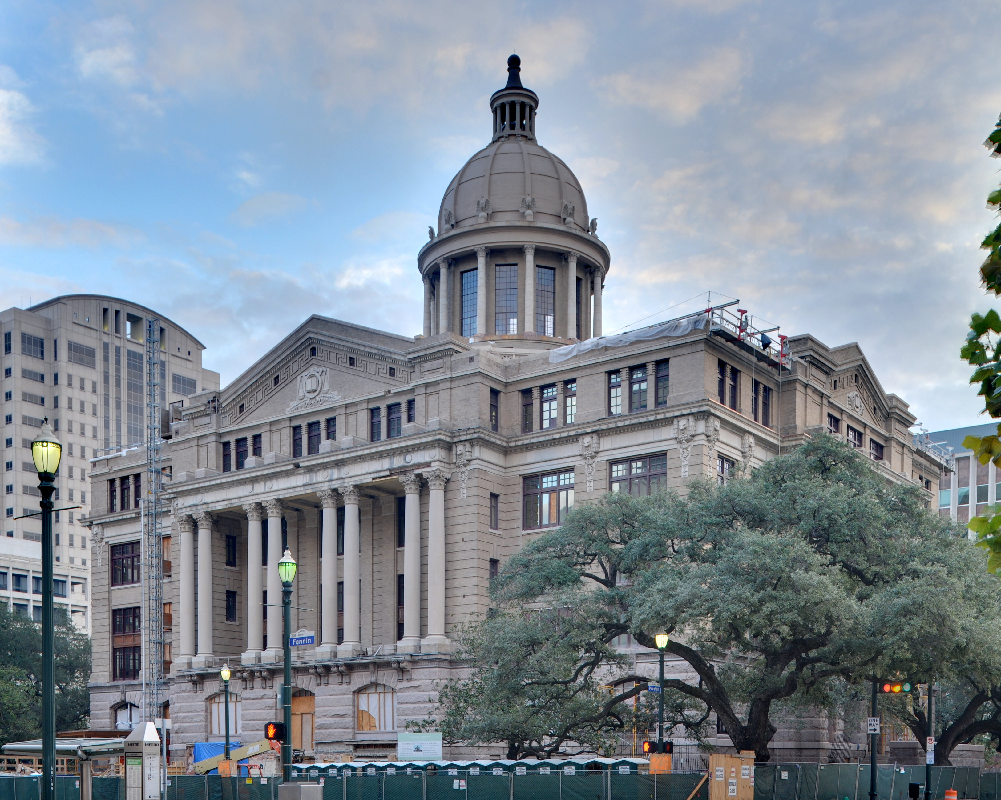 The Harris County (Houston, Texas, USA) Courthouse of 1910 is listed in the National Register of Historic Places, United States Department of the Interior.